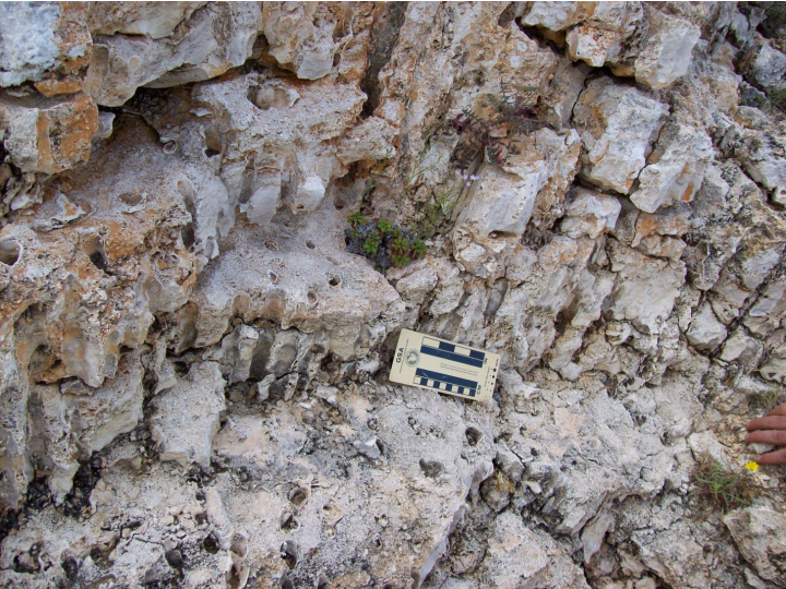 Coral buildup from the Tortonian (Late Miocene) of Mallorca (Spain). The coral are completely dissoluted and are visible as empty pipes in the carbonatic sediment.